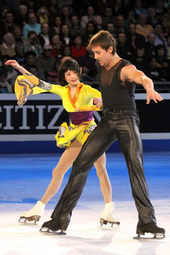 3 Yuko Kavaguti / Alexander Smirnov at the 2009 World Figure Skating Championships exhibition.